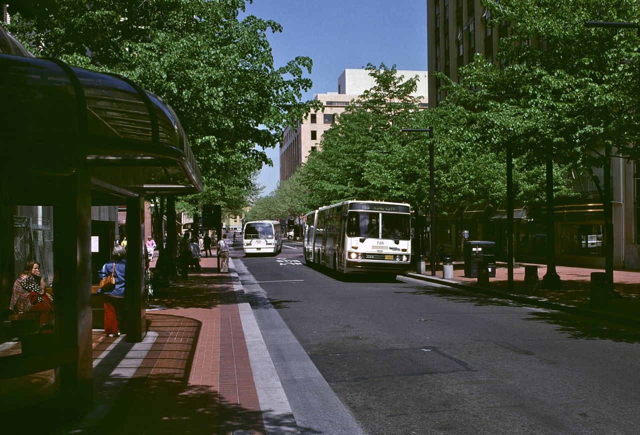 Buses on the Portland Mall in 1988, southbound on 5th Avenue between Stark Street and Washington Street. Closest is bus 726, a 1981 Crown-Ikarus articulated bus headed for King City on line 12-Barbur. In the background is bus 914, a 1982 GM "RTS" in service on line 10-Harold. The mall closed in January 2007 for rebuilding and addition of MAX tracks, and the two-lane configuration seen here was replaced by a three-lane one with private vehicles permitted in the lefthand lane. The shelters at the bus stops were replaced by new ones that provide much less protection from the elements.